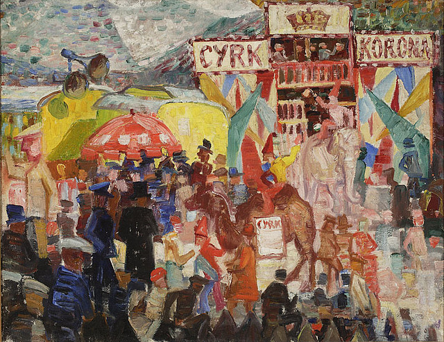 Circus